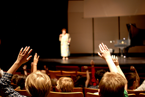 Salt Lake City schoolchildren participate in athe Gina Bachauer International Piano Foundation's Music-In-Our-Schools program.